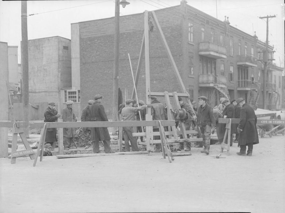 For documentary purposes the original description provided by BAnQ has been retained. Additional descriptive text may be added by Wikimedians with the wiki description = parameter, but please do not modify the other fields.